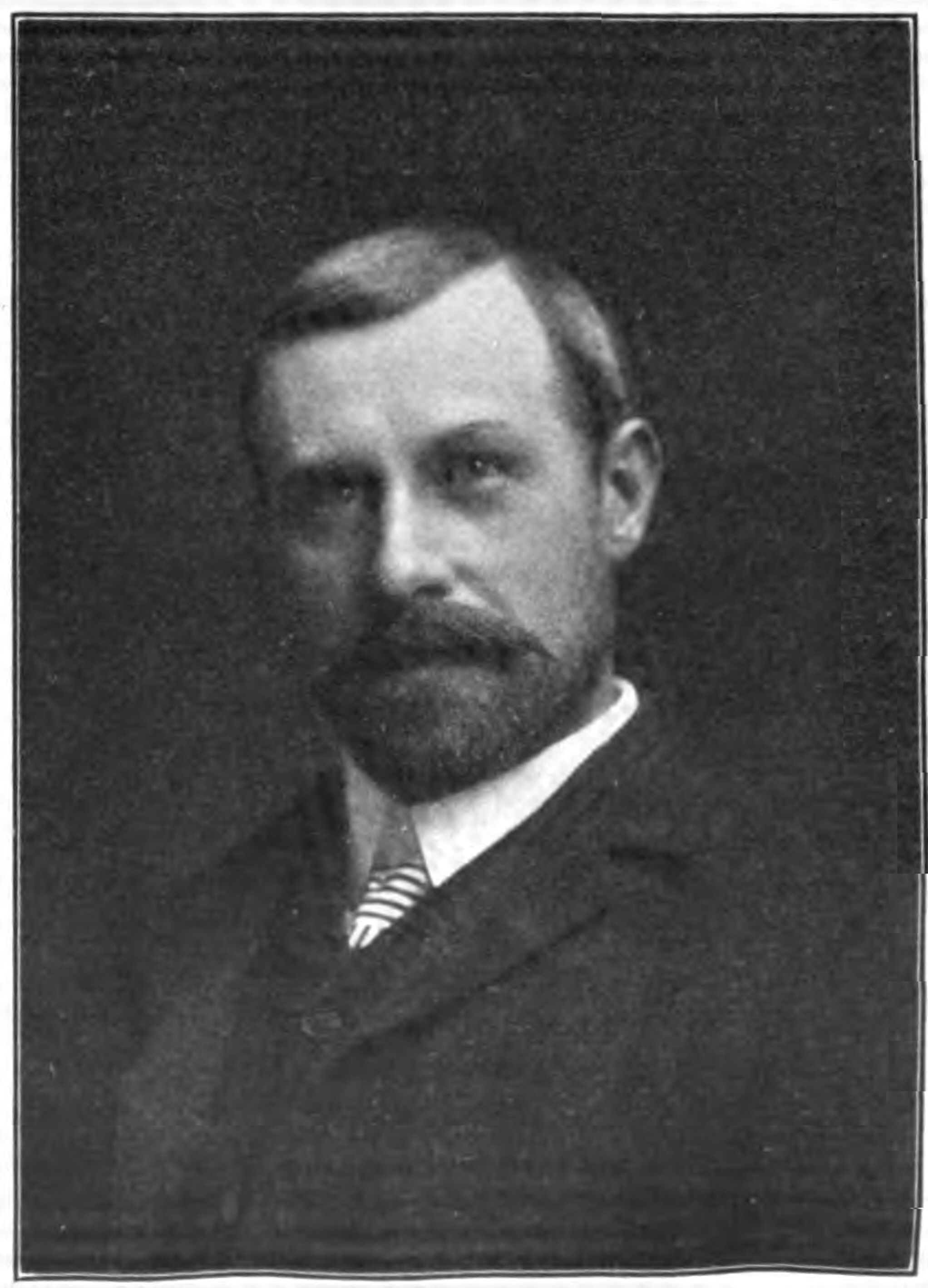 John Turner (1865–1934) was an English-born anarcho-communist shop steward. He referred to himself as "of semi-Quaker descent."